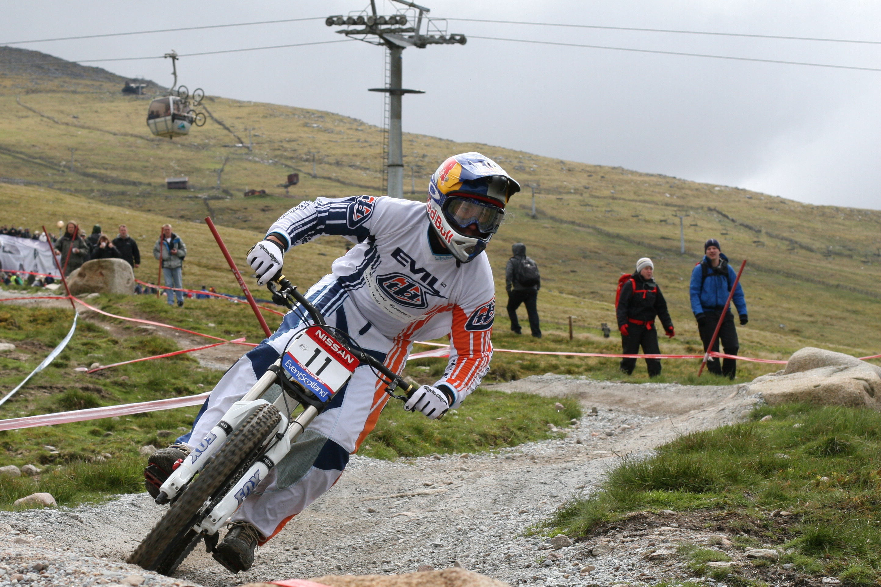 DH Qualifying photos from the UCI Mountain Bike Downhill World Cup at Fort William.